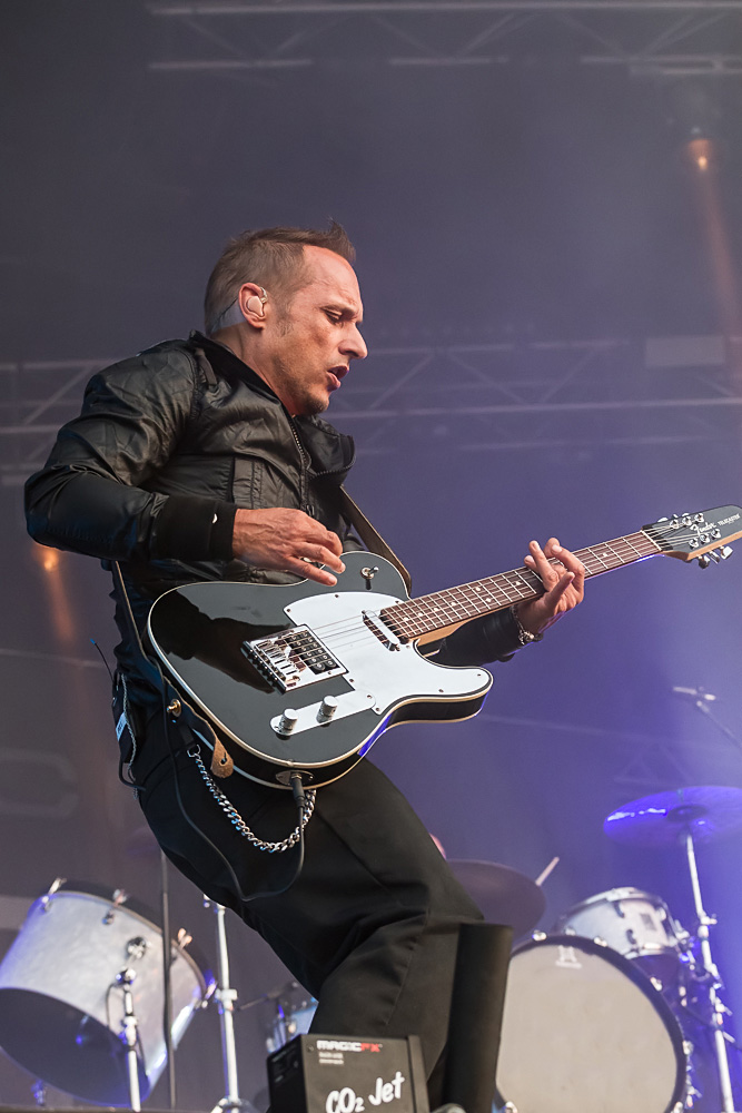 Noel Pix playing guitar.